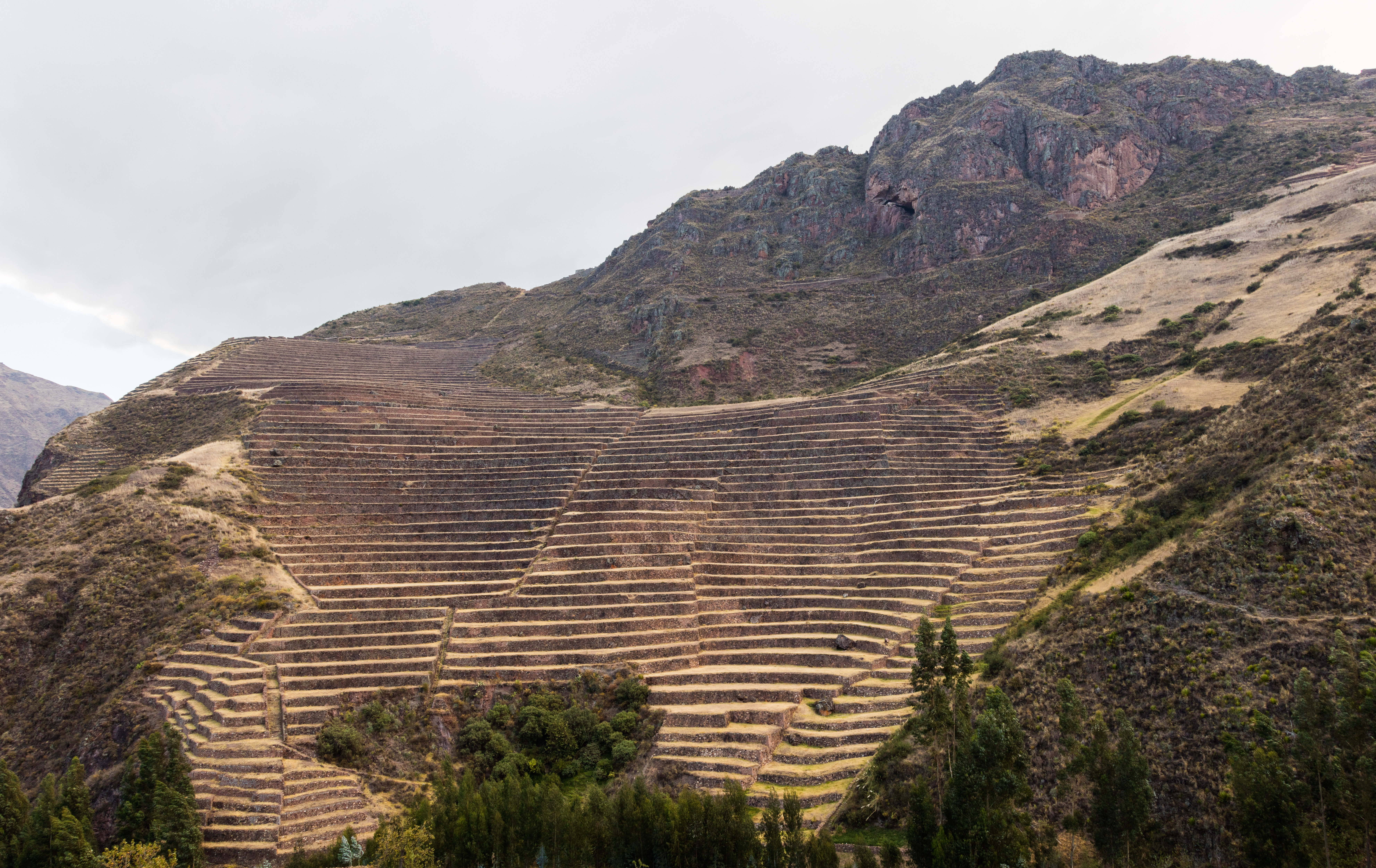 Pisac, Cuzco, Peru